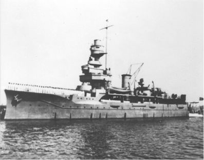 The disarmed Danish training cruiser Niels Juel in German service